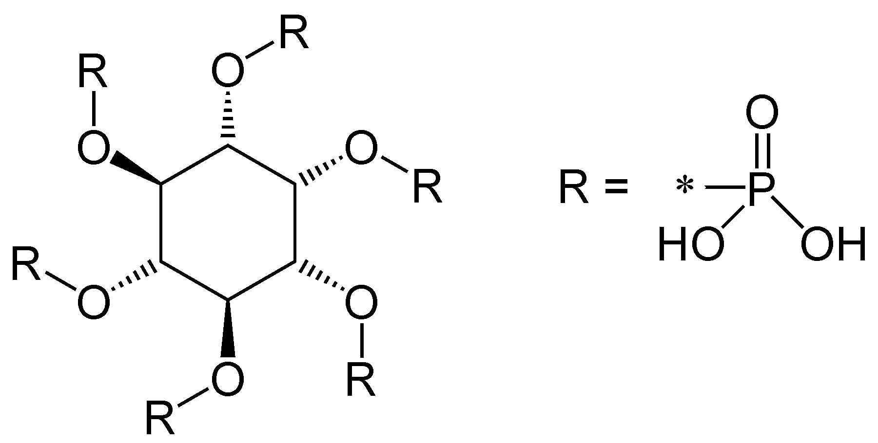 Phytic acid, Phytinsäure